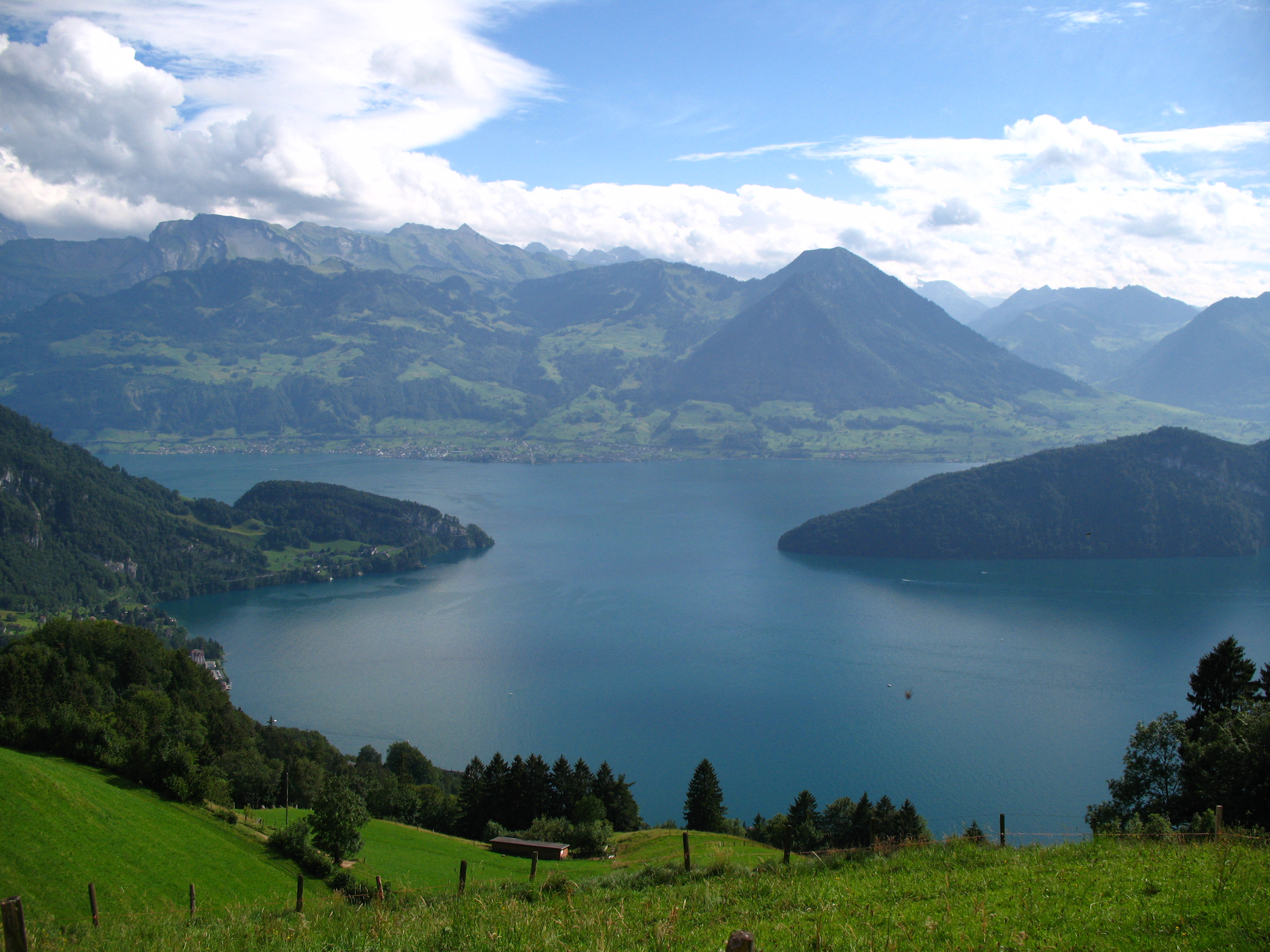 Lake Lucerne viewed from the Rigi railway, Vitznau, Switzerland